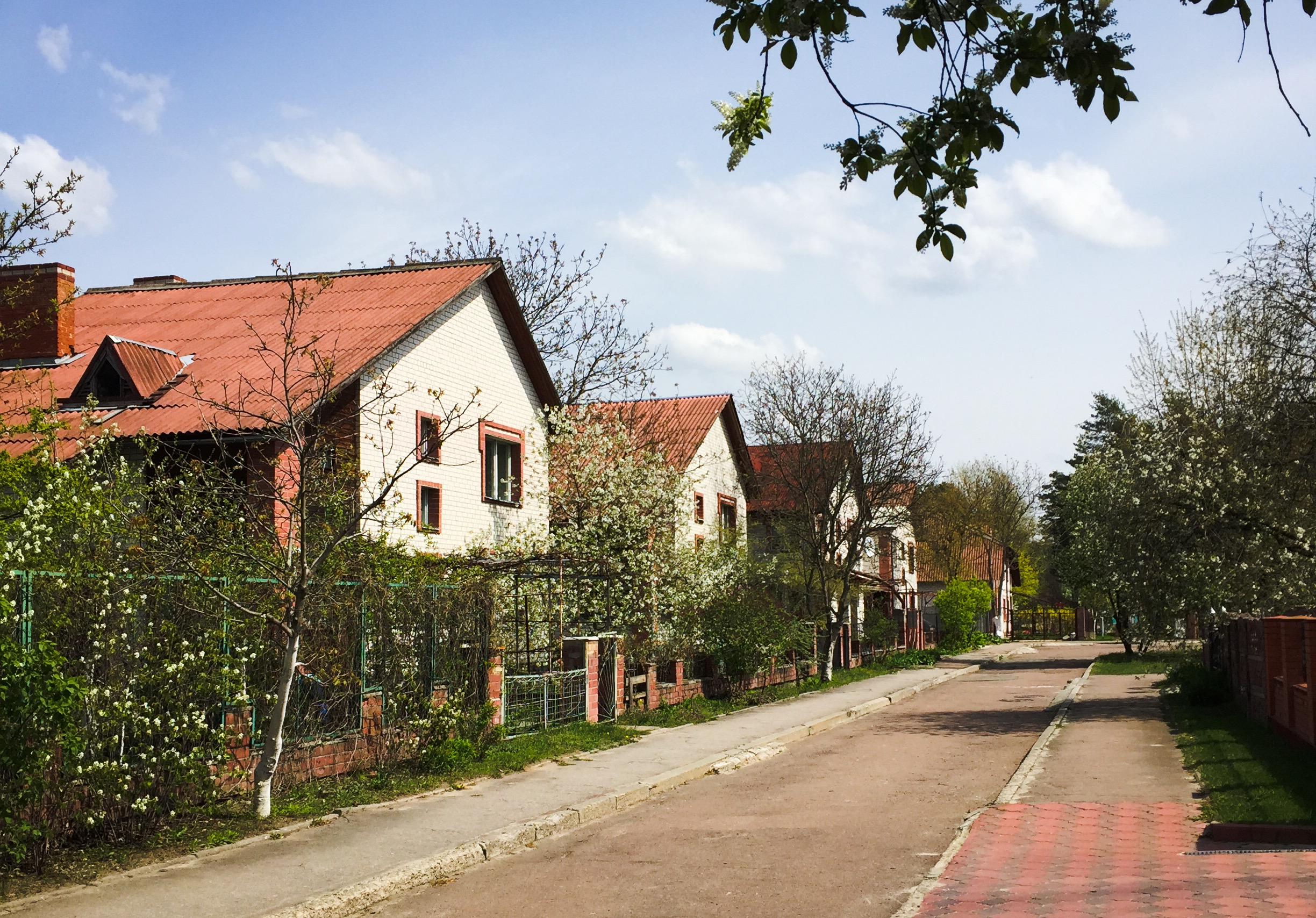 One of the eight districts of Slavutych